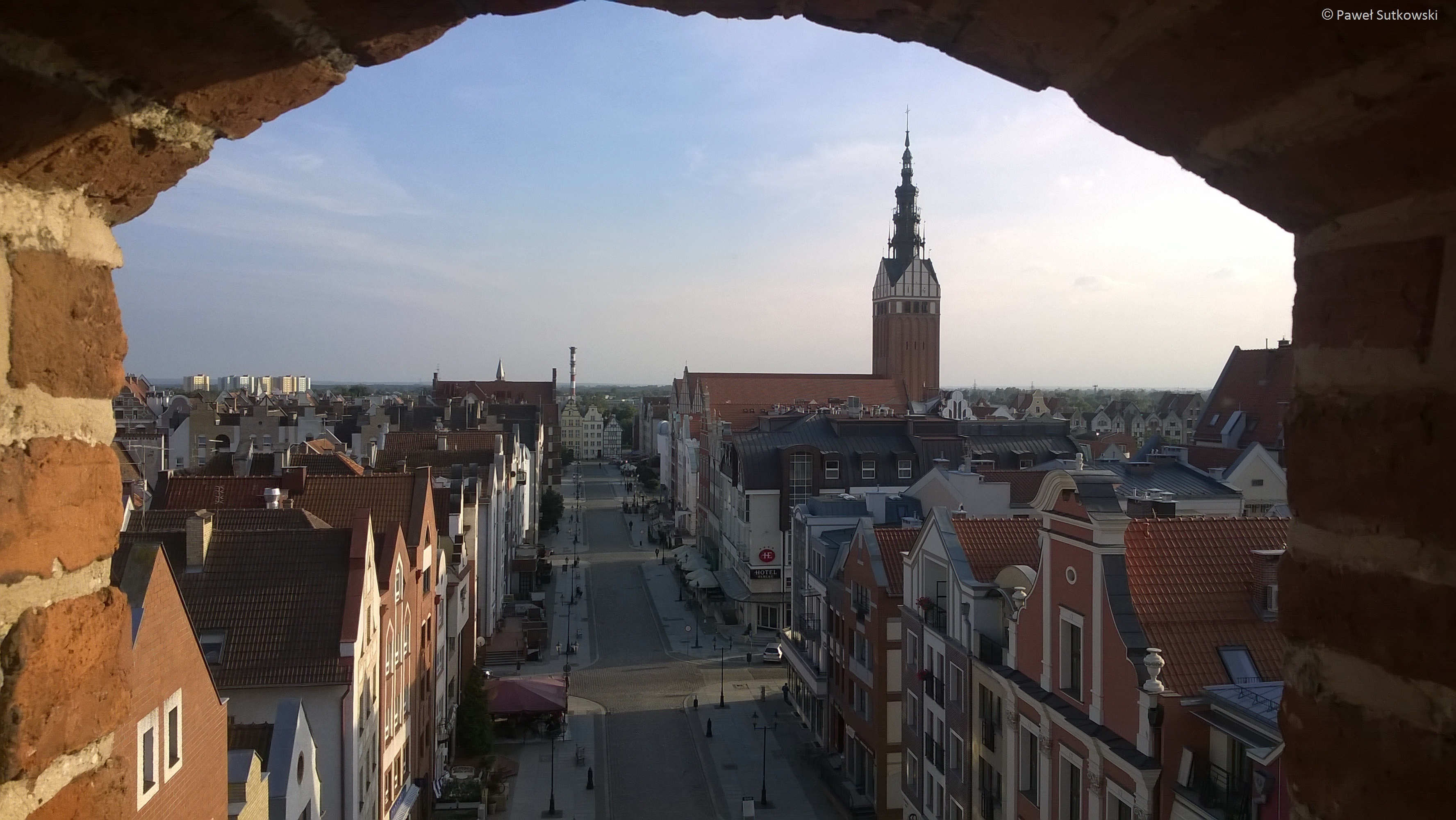 Old Town in Elbląg (Poland)